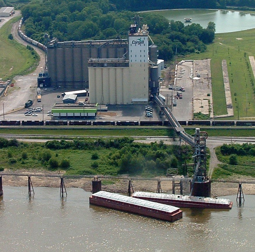 A Cargill grain elevator and terminal in East St. Louis, Illinois on the east shore of the Mississippi River. Photographed June 15, 2006 from the Jefferson National Expansion Memorial, St. Louis, Missouri by Kelly Martin.